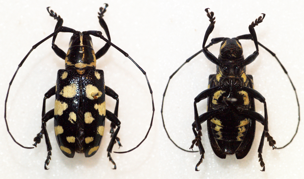 Aurivillius,1891 Sex: Female Data: 05-2013 - Female - Samar - Visayas - Philippines Size: ?